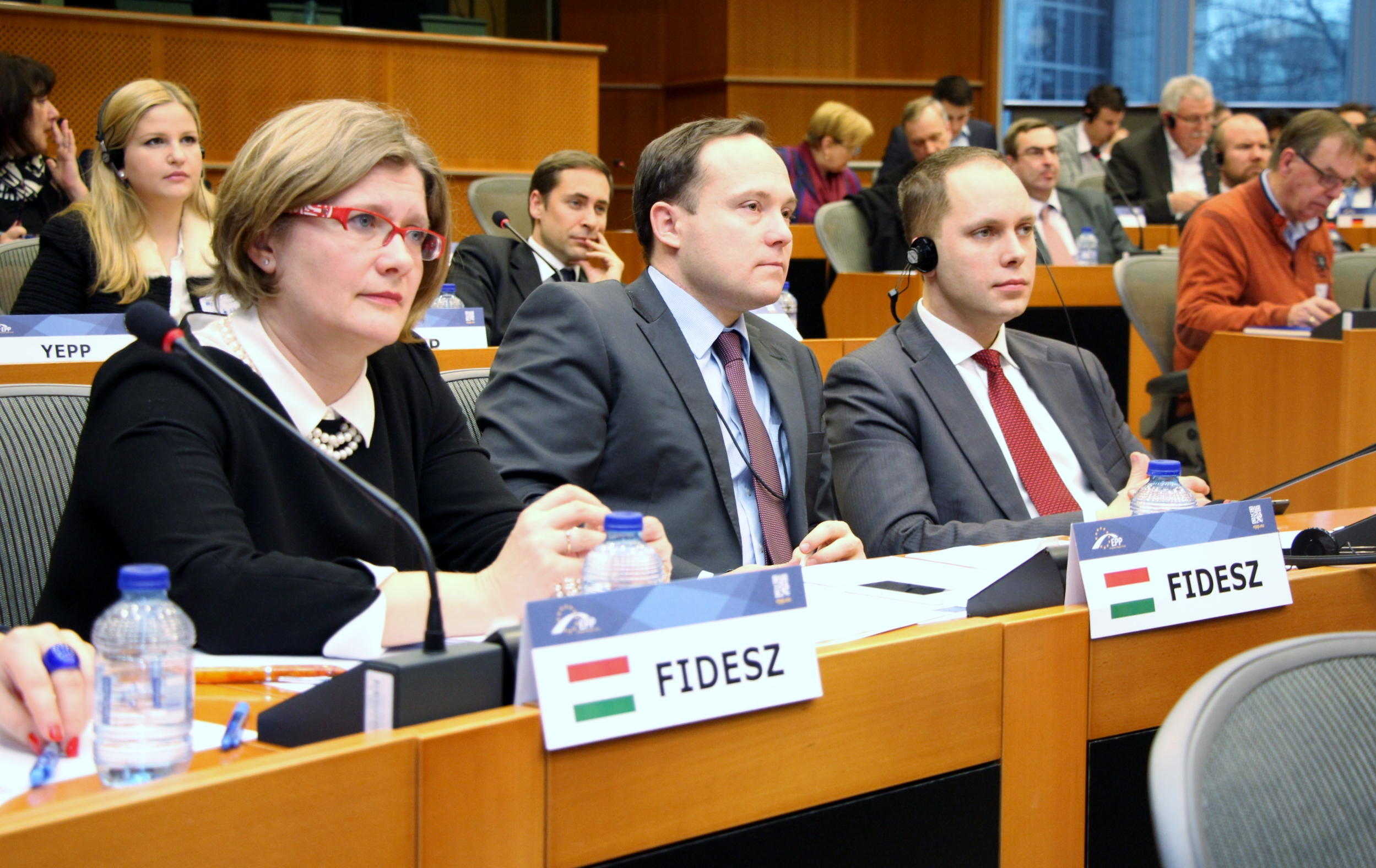 Political Assembly 22-23 January 2015